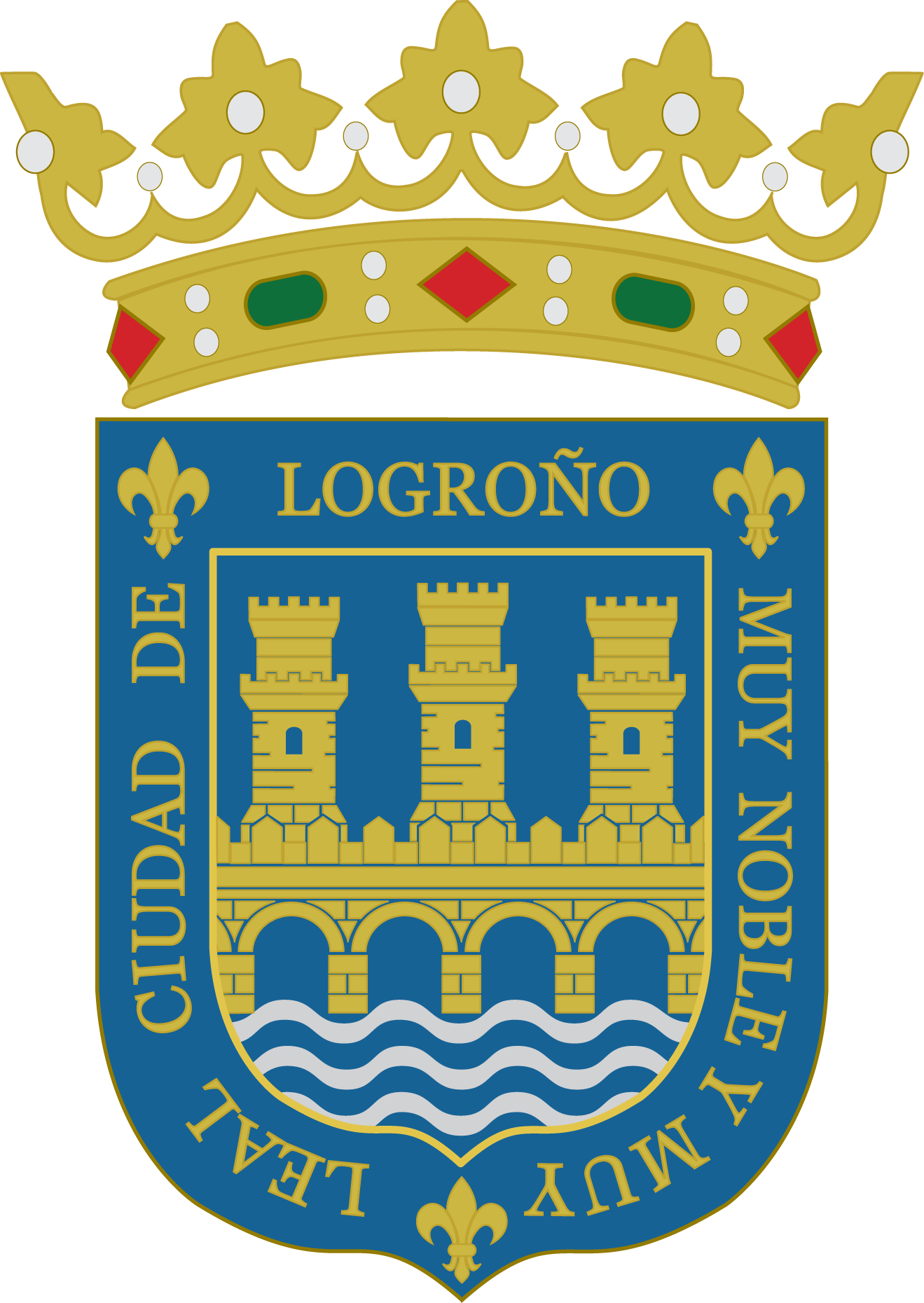 Coat of Arms of Logroño, capital city of La Rioja, Spain